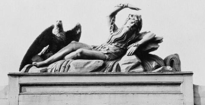 "Allegorical Figure of The Schuylkill Chained" by William Rush (circa 1825). Collection: Philadelphia Museum of Art.